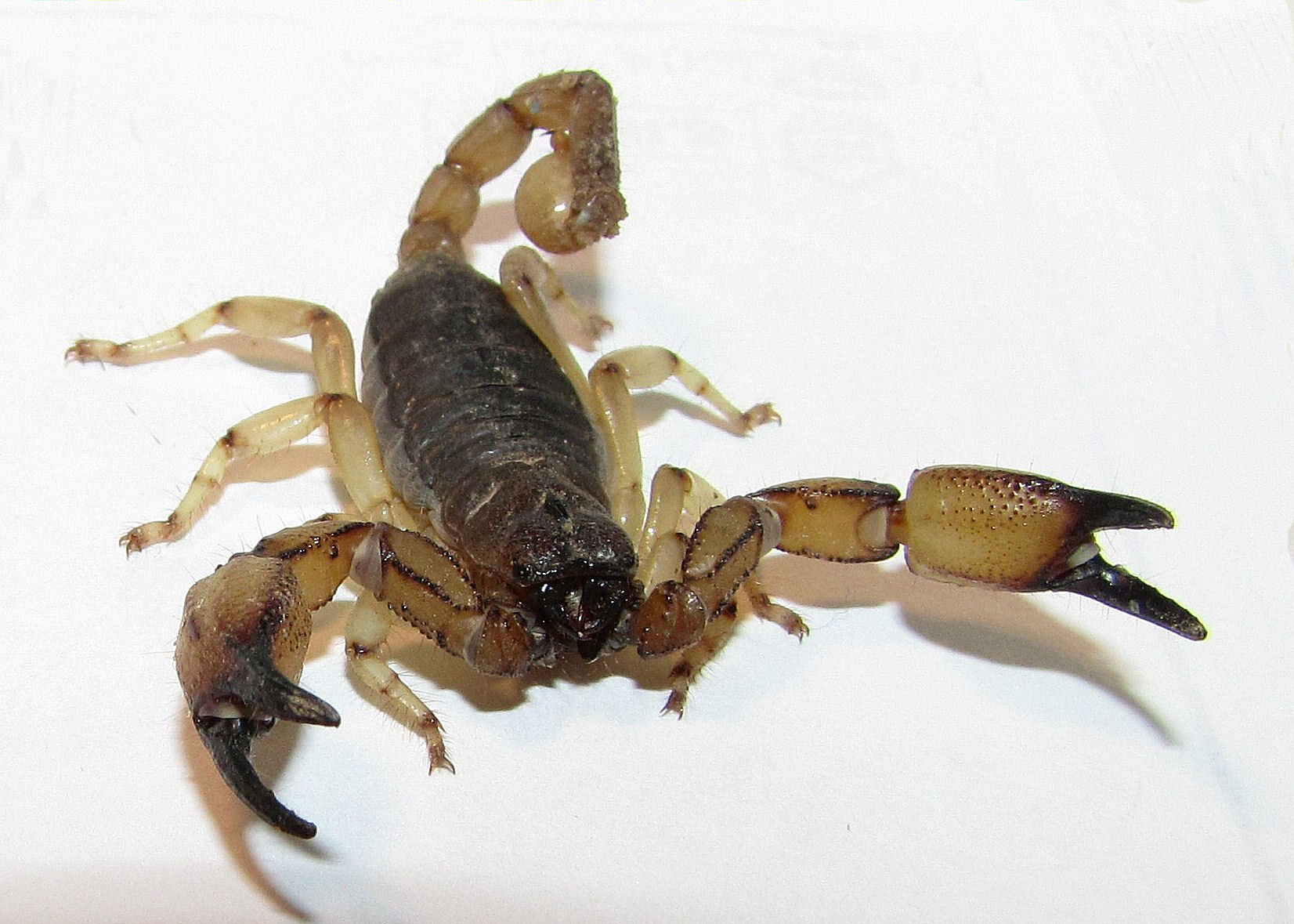 Anuroctonus pococki (California swollenstinger scorpion) Location: Near Santiago Oaks Park, Orange, CA